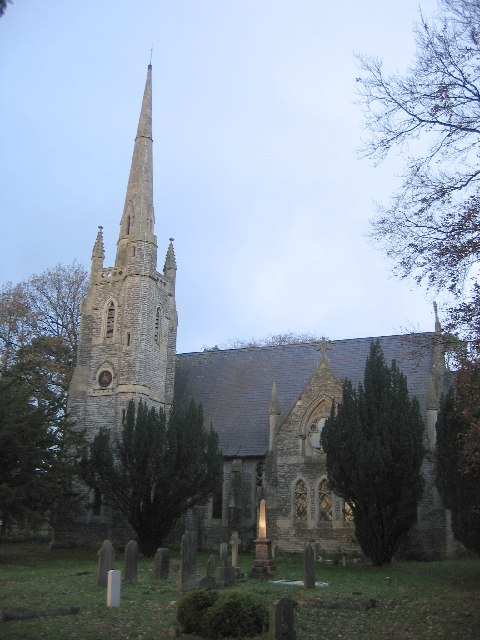 Umberslade Baptist Chapel. This exceptionally fine nonconformist estate chapel by George Ingall opened in 1877. It was built for George Frederick Muntz, a Baptist convert and Member of Parliament who owned nearby Umberslade Hall 88604. It is the sole survivor of the grand chapels associated with the rise of Birmingham nonconformity and it too is now redundant as a place of worship. It is now owned by the Historic Chapels Trust which plans to restore it with the aid of grants offered by English Heritage and the Heritage Lottery Fund. The church stands in splendid isolation in a small copse at the end of a tree lined footpath from Hockley Heath. The picture is from within the close confines of churchyard (hence the angle!) on a winter afternoon with the low sunlight reflecting off a monument. While the church was being constructed the adjacent 87177 was used as a temporary place of worship. These days the congregation now use the rather more conveniently sited 87348.